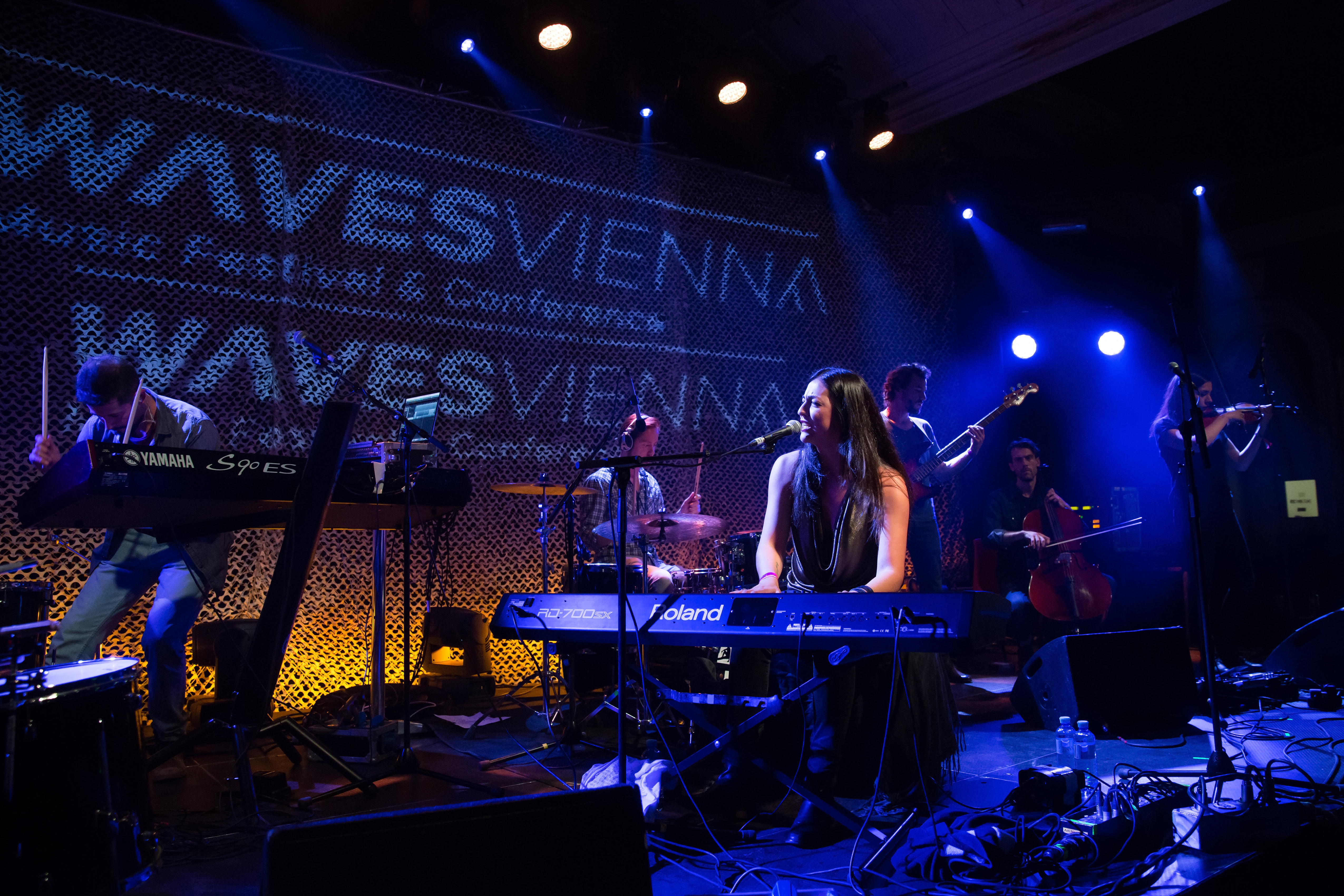 Clara Blume, Waves Vienna 2015 (Vienna, Austria).